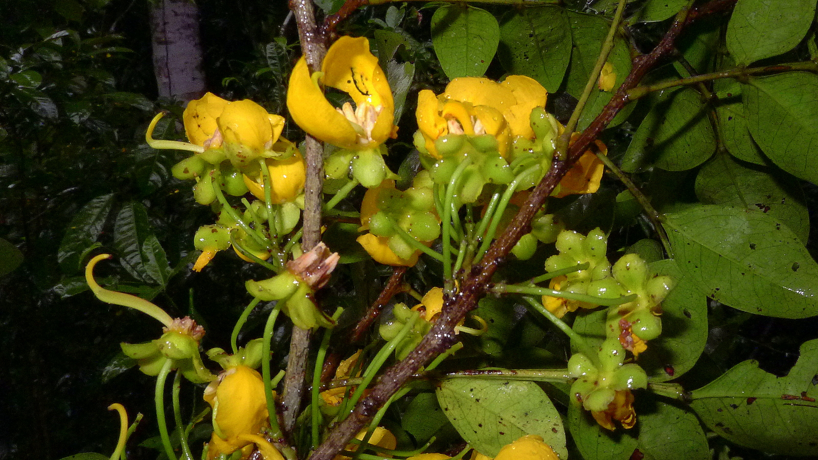 Chamaecrista ensiformis (Vellozo) Irwin & Barneby var. ensiformis